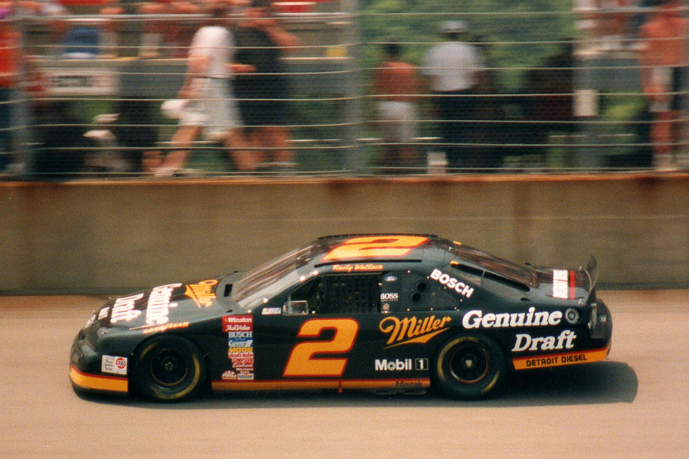 Michigan International Speedway – June 1994 Film Scan Canon AE-1